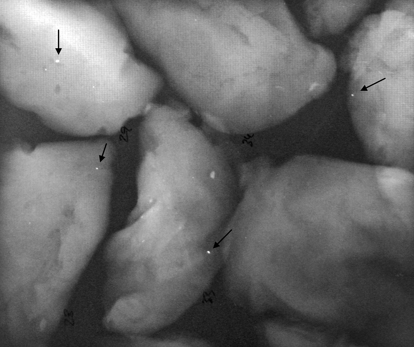 X-ray of breast muscle tissues from red-legged patridges containing small fragments of Pb left by the Pb shot pellets that were used as ammunition to hunt the birds. Fragments are generated as whole shot passes through tissue and fragments on impact.